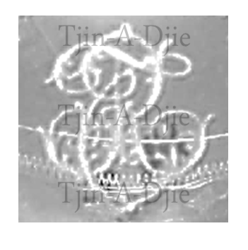 The Family Crest of the Tjin-A-Djie Family of Suriname. It depicts a "R" and a "T" indicating Rudolf J. Tjin-A-Djie.